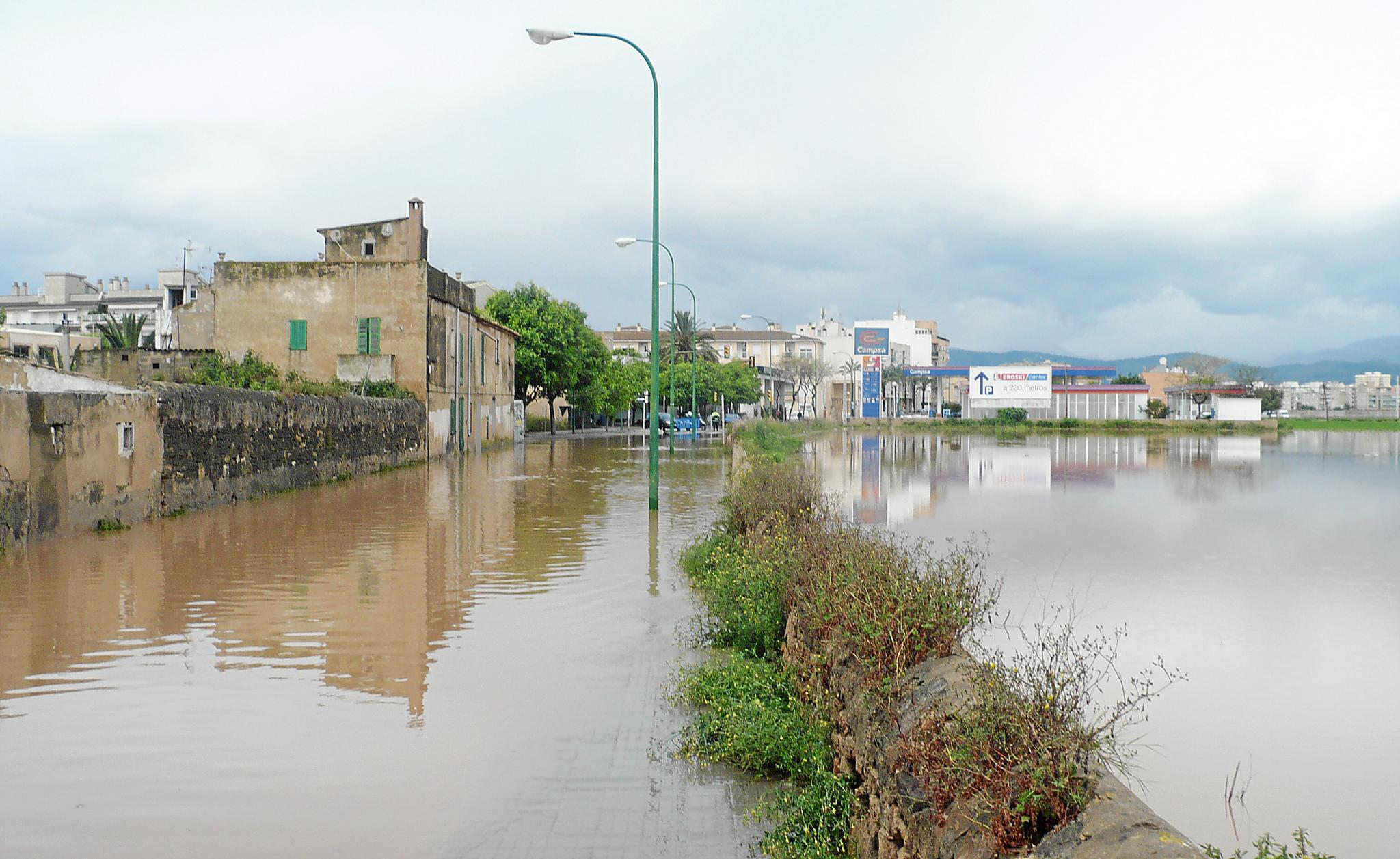 Hochwasser 2010